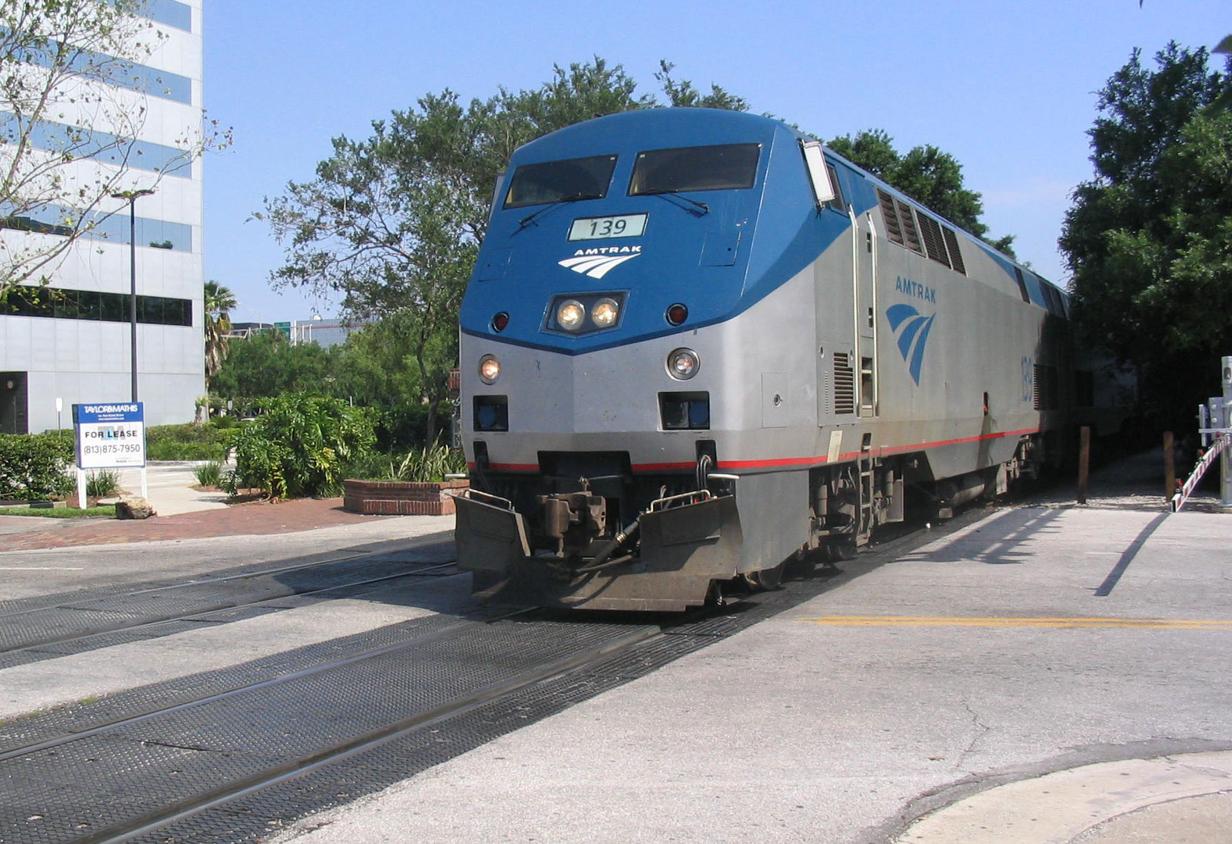 Southbound Amtrak train 139, on the Silver Star route, crosses Central Boulevard in downtown Orlando, Florida